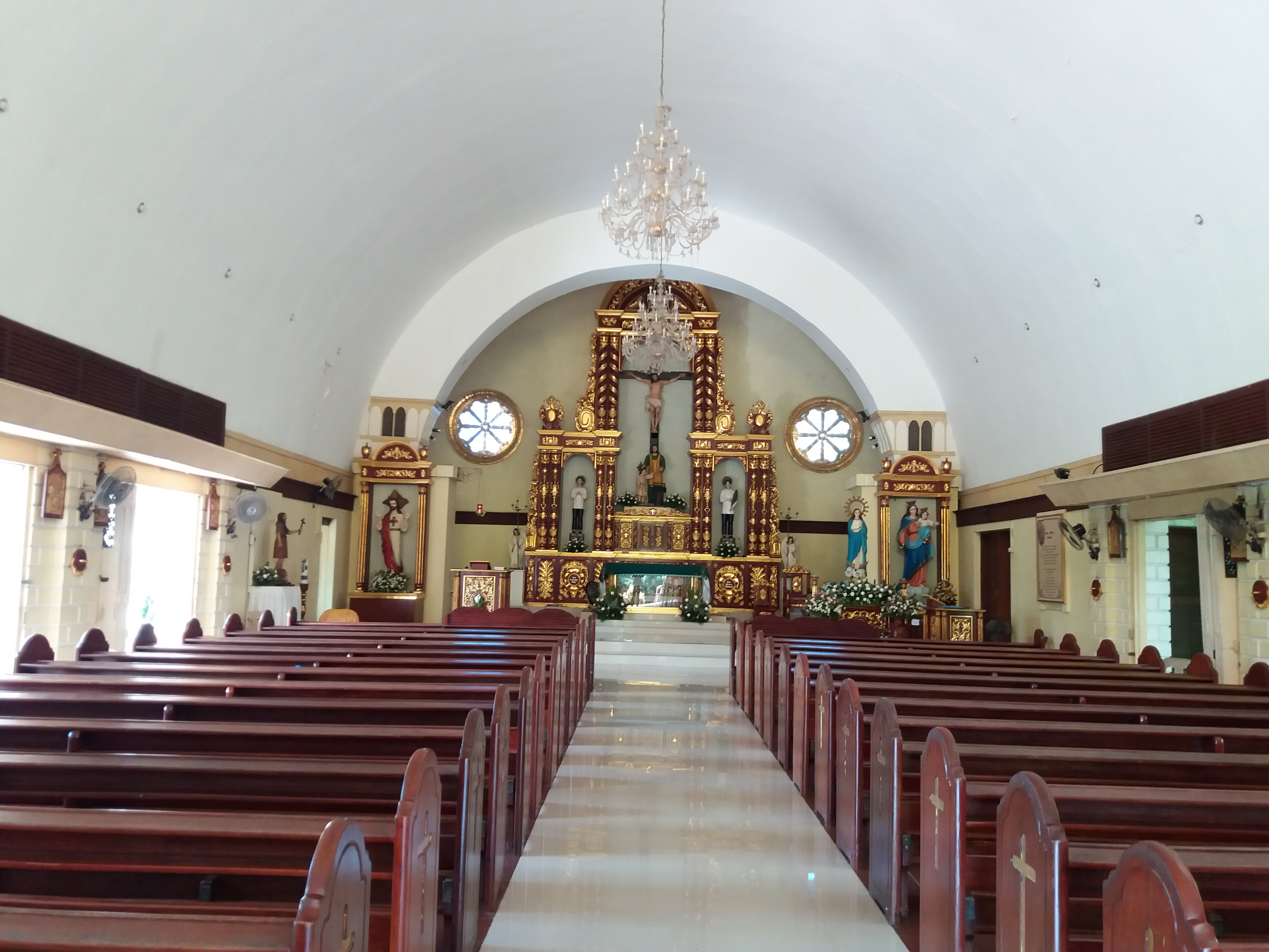 Altar of Saint Joseph the Worker Parish Church, Canlubang, Calamba City